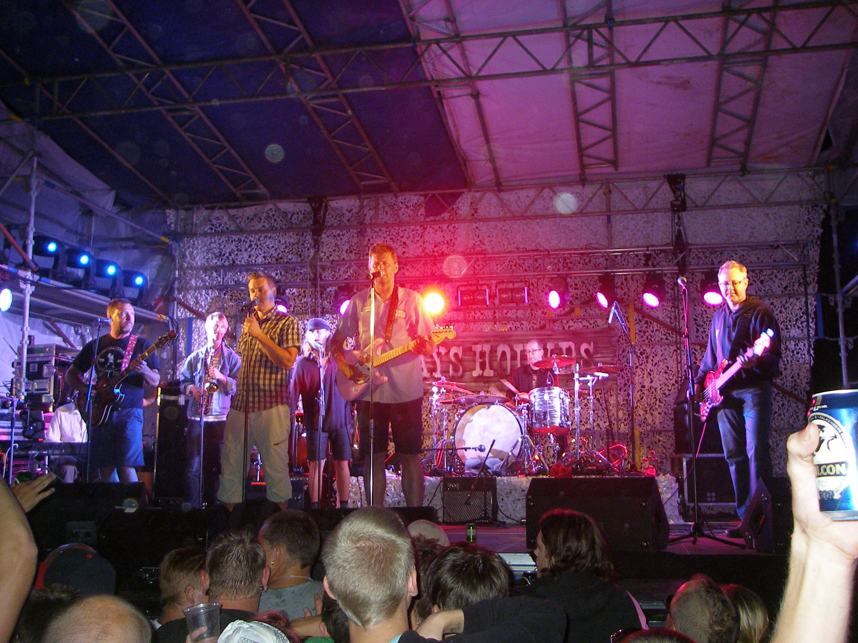 The Swedish band Jävlaranamma performing at Mopperocken, 2013-07-20